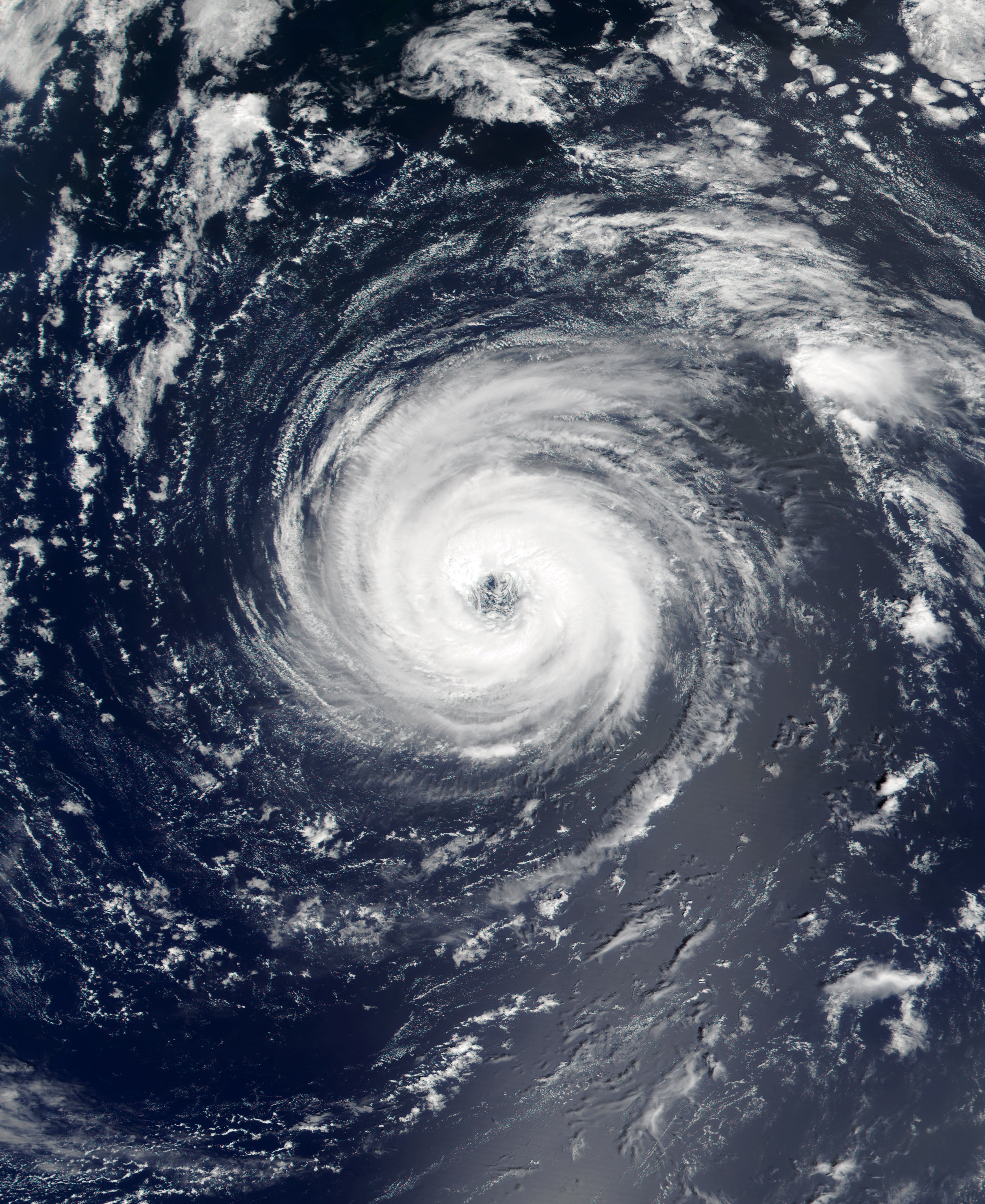 This image shows Hurricane Alberto in the Atlantic Ocean at 1415 UTC on August 19, 2000. The storm's maximum sustained winds were about 100 mph and the minimum pressure was 973 mb at the time this image was captured.